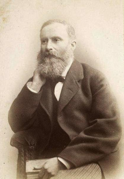 William Chandless' portrait